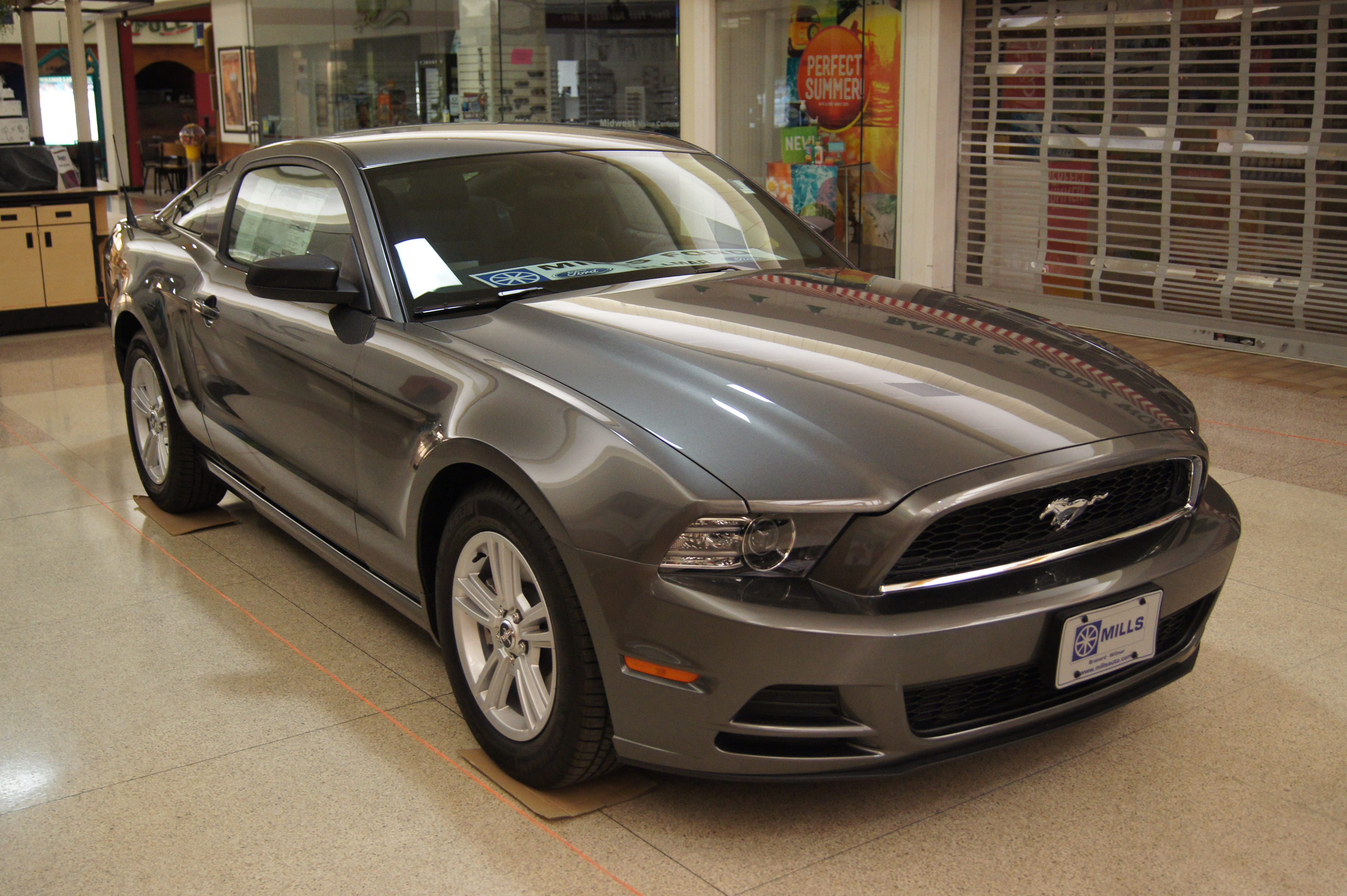 Willmar Car Club 2014 Kandi Mall Display